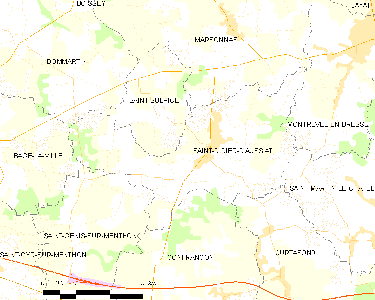 Map of French commune: Saint-Didier-d'Aussiat Map commune FR insee code 01346.png